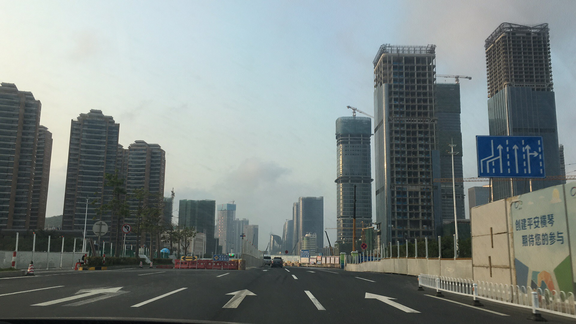 Hengqin New Area